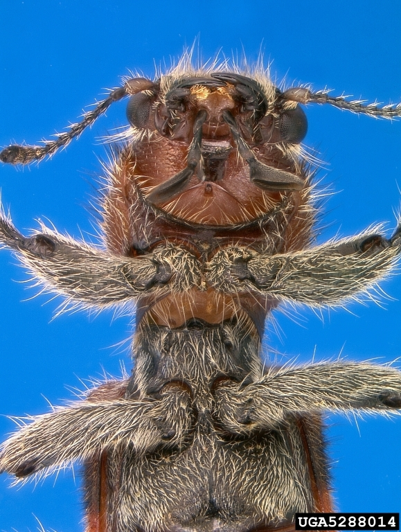 Enoclerus ichneumoneus (Fabricius, 1776). Illustrates the characteristics of family Cleridae